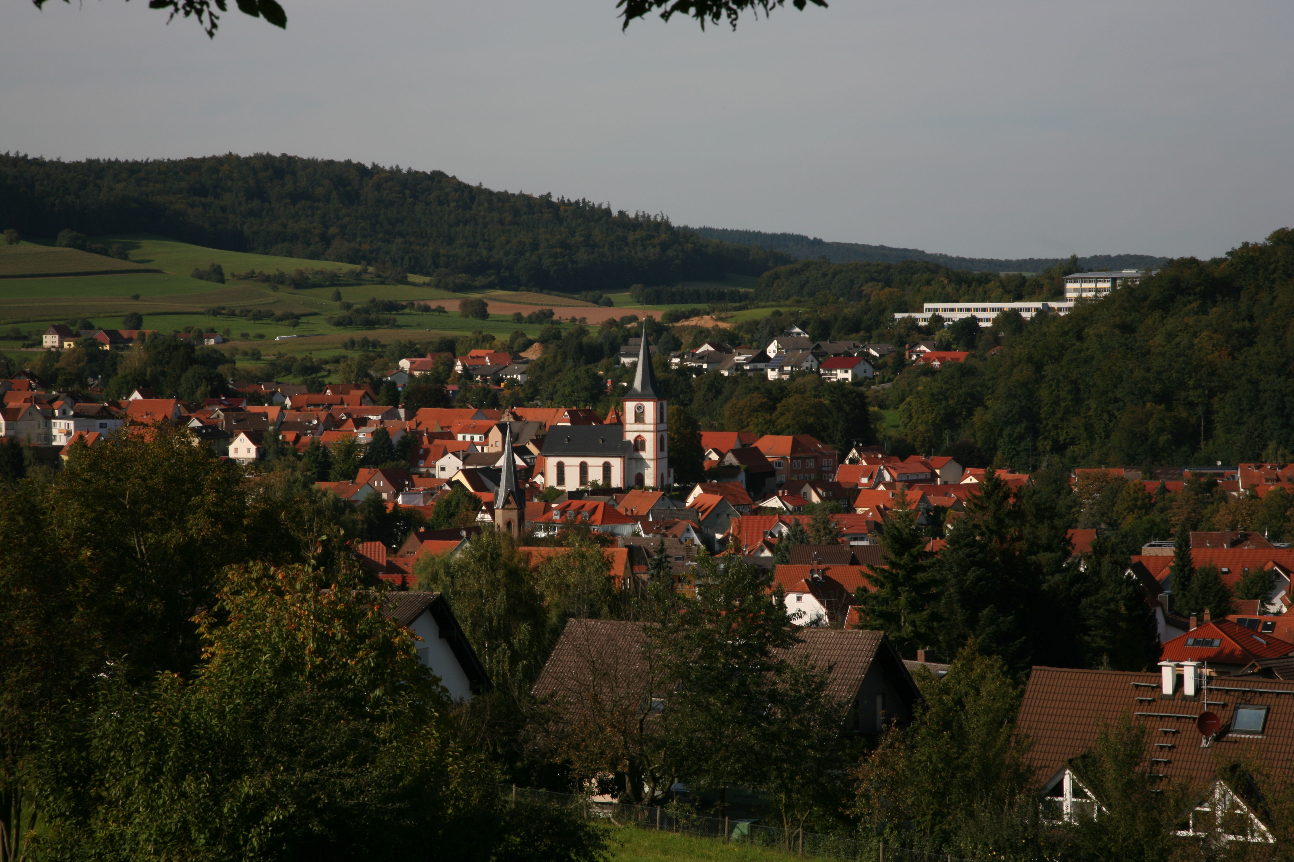 View of Reichelsheim in the Odenwald